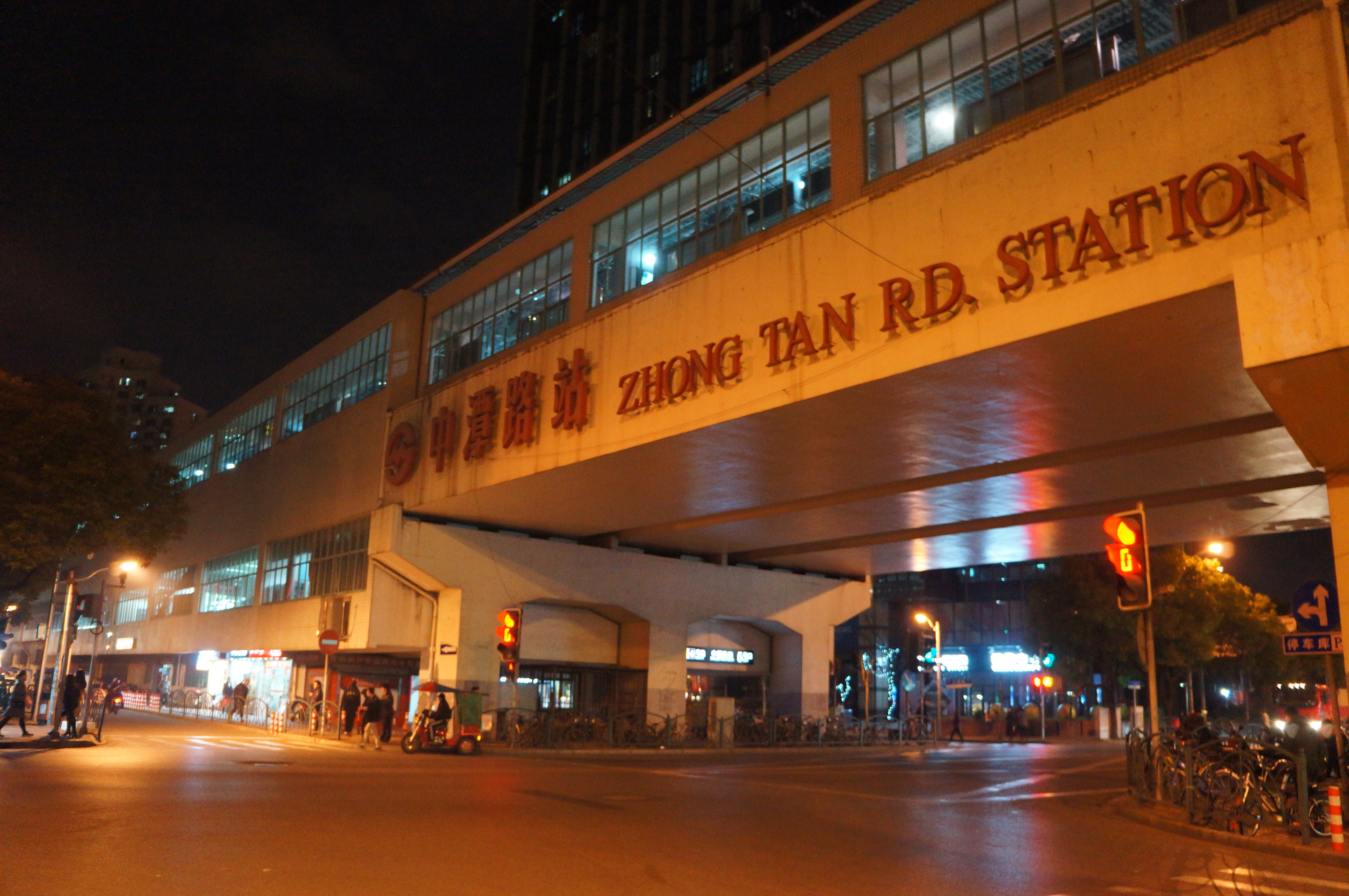 201703 Zhongtan Road Station